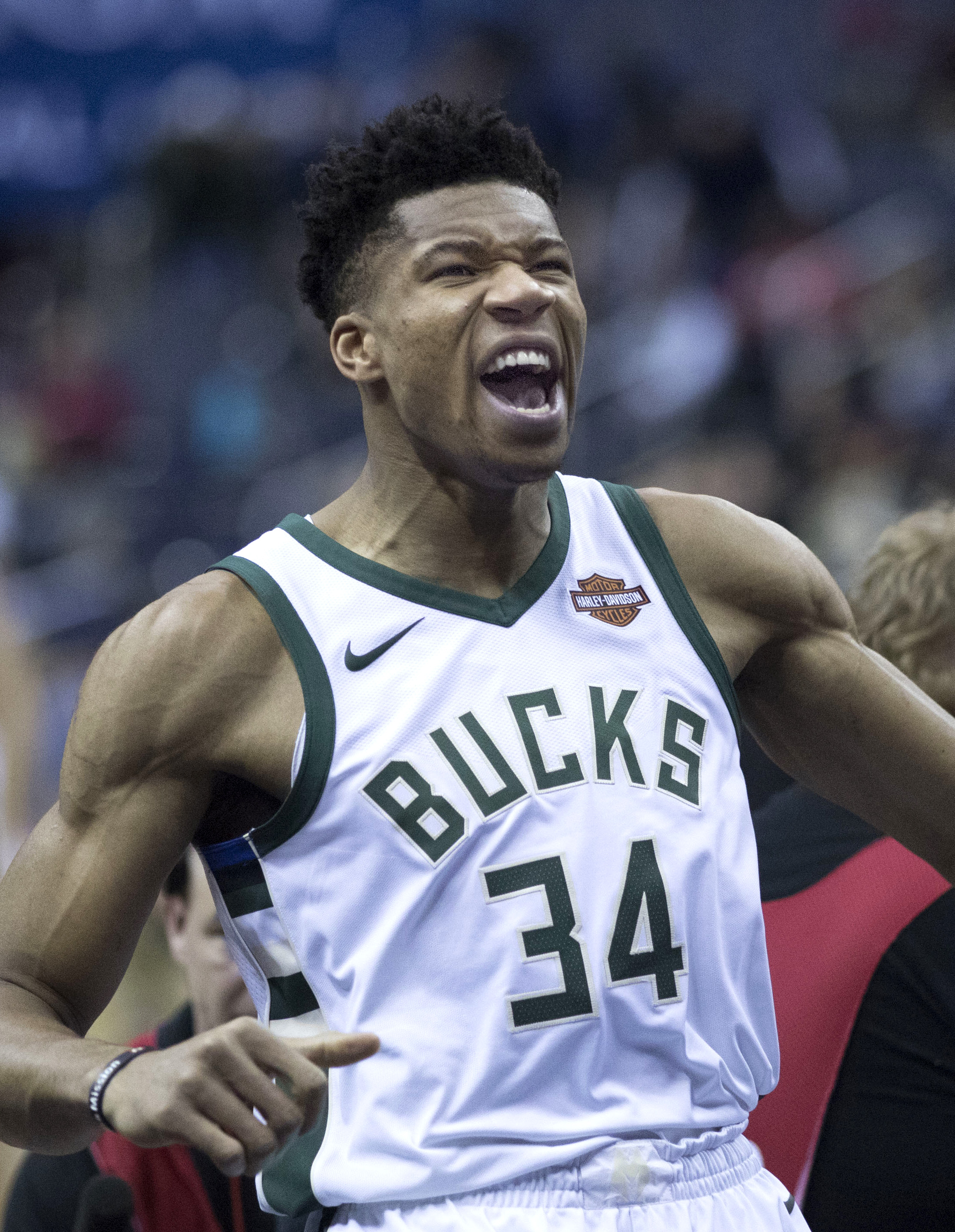 Giannis Antetokounmpo of the Milwaukee Bucks before the game against the Washington Wizards on January 15, 2018 at Capital One Arena in Washington, DC.